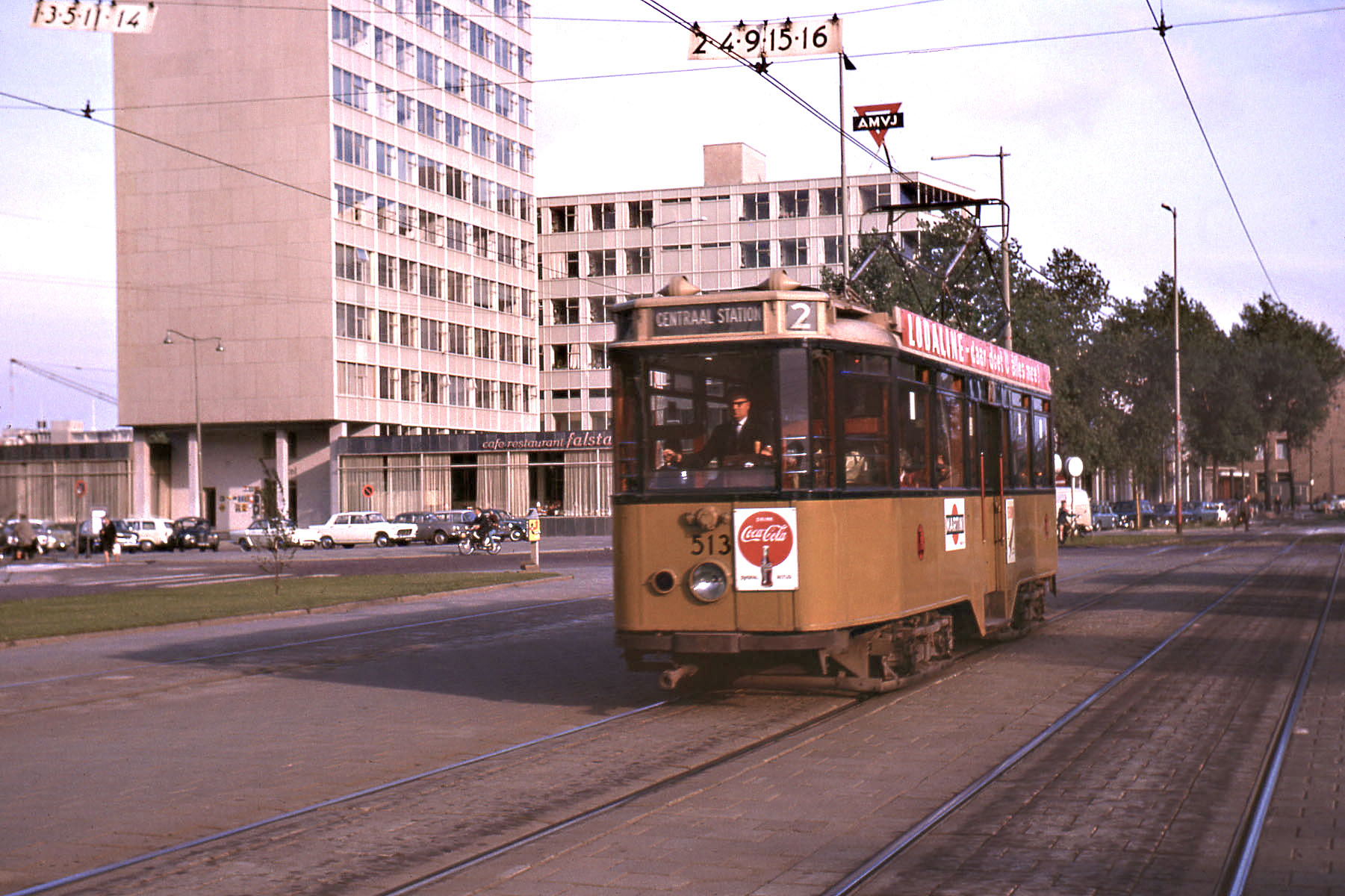 Tram 513, Kruisplein, Rotterdam, The Netherlands.